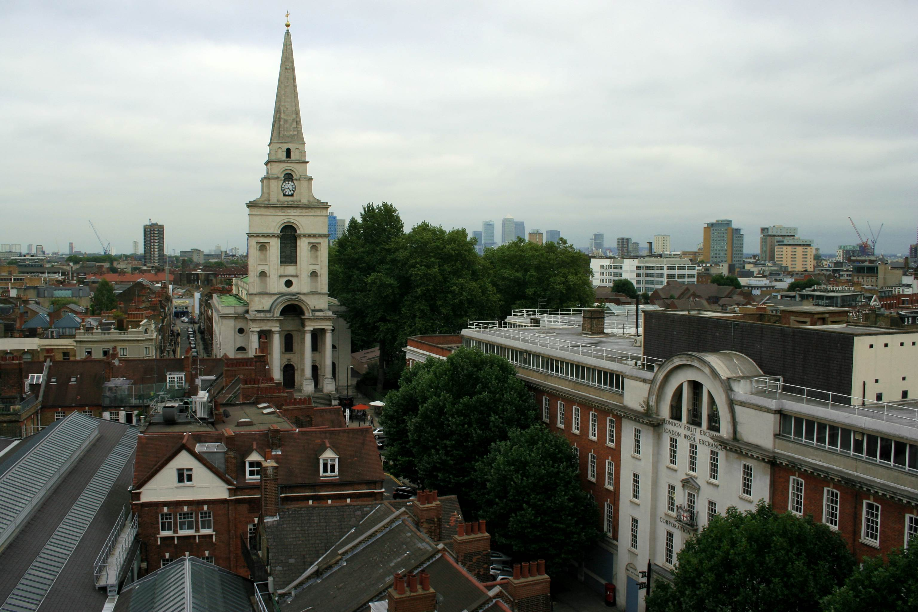 View of Christ Church and the fruit and wool exchange from the sixth-floor terrace of One Bishops Square in September 2013.